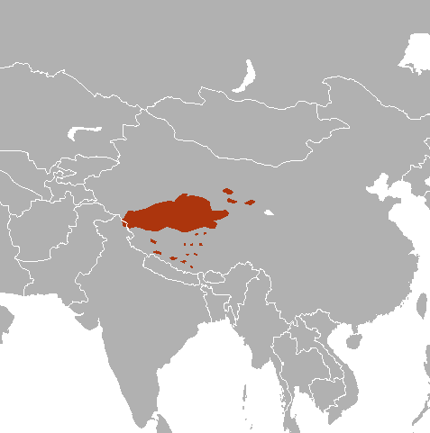 Bos_mutus_map